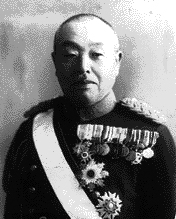 Japan’s Inspectorate General of Military Training Jōtarō Watanabe (陸軍教育総監・渡辺錠太郎, 1874–1936). General Watabane was among the victims of the February 26 Incident (二・二六事件).